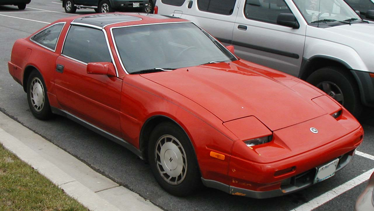 1987-1989 Nissan 300ZX photographed in USA.